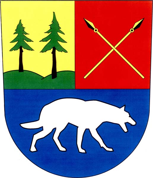 Coat of amrs of Pšovlky municipality, Rakovník District, Czech Republic.